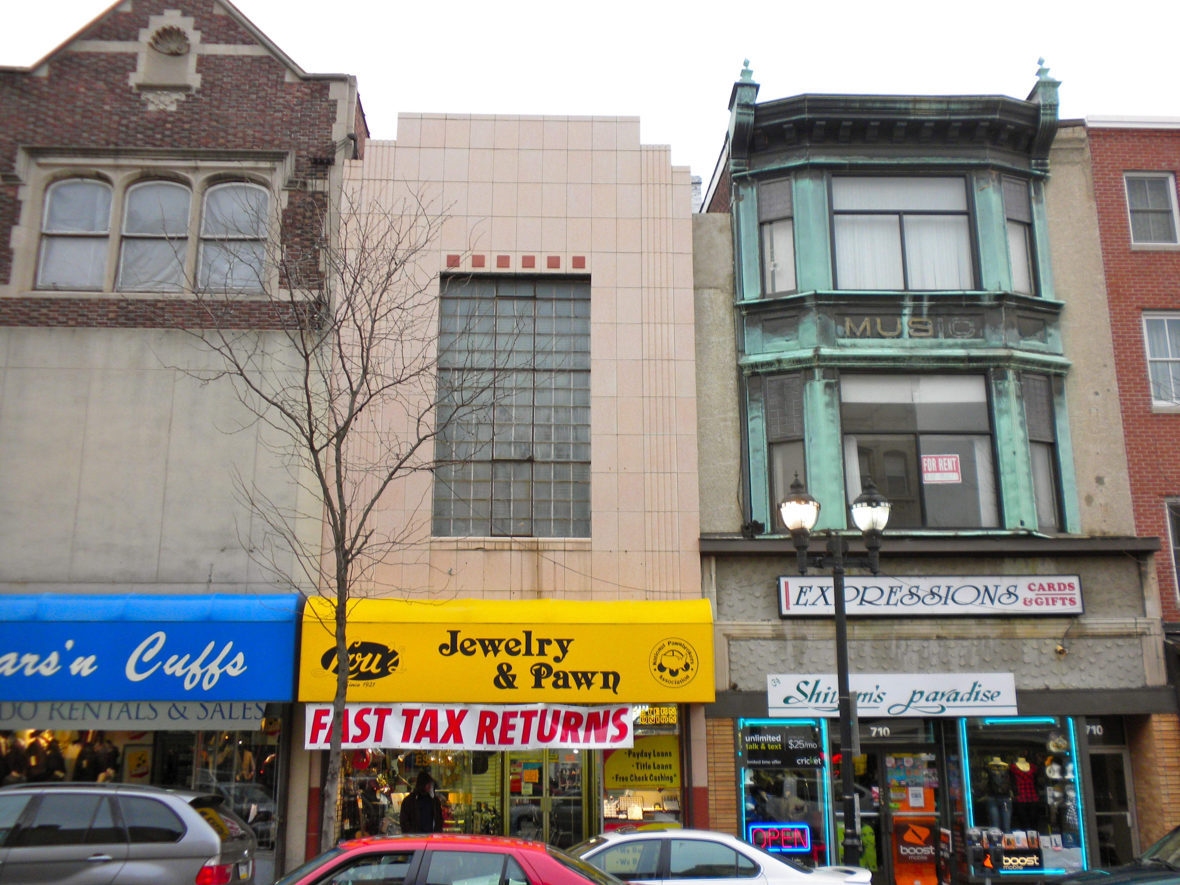 The Max Keil Building at 712 North Market Street, Wilmington, Delaware (the center building). Note that the Braunstein's Building (704-706 North Market) and another building named the Max Keil Building at 700 N. Market are also on the NRHP